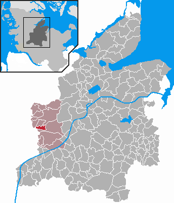 Locator maps of municipalities in Schleswig-Holstein - District Rendsburg-Eckernförde